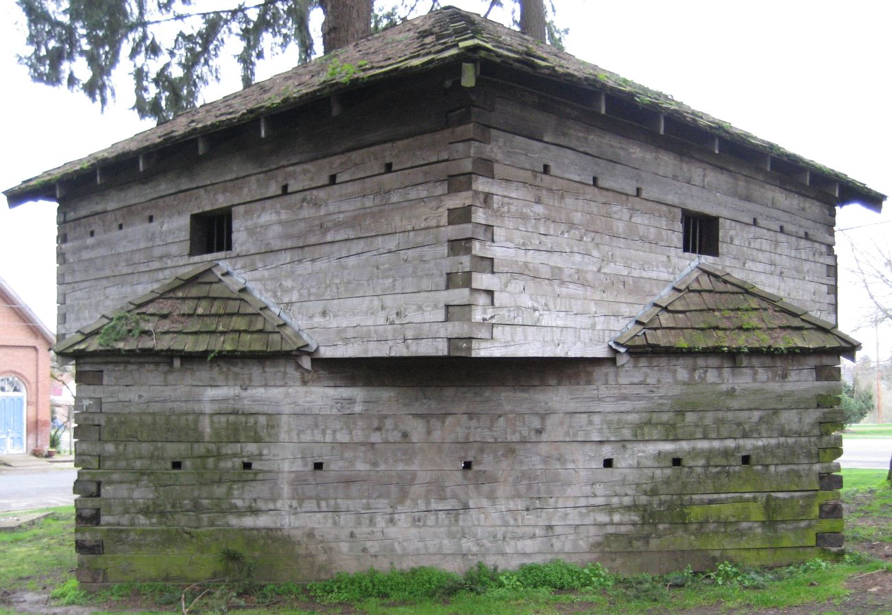 blockhouse of Fort Yamhill which was moved to a park in downtown Dayton, Oregon, in 1911 - Taking by me at Dayton, Oregon.